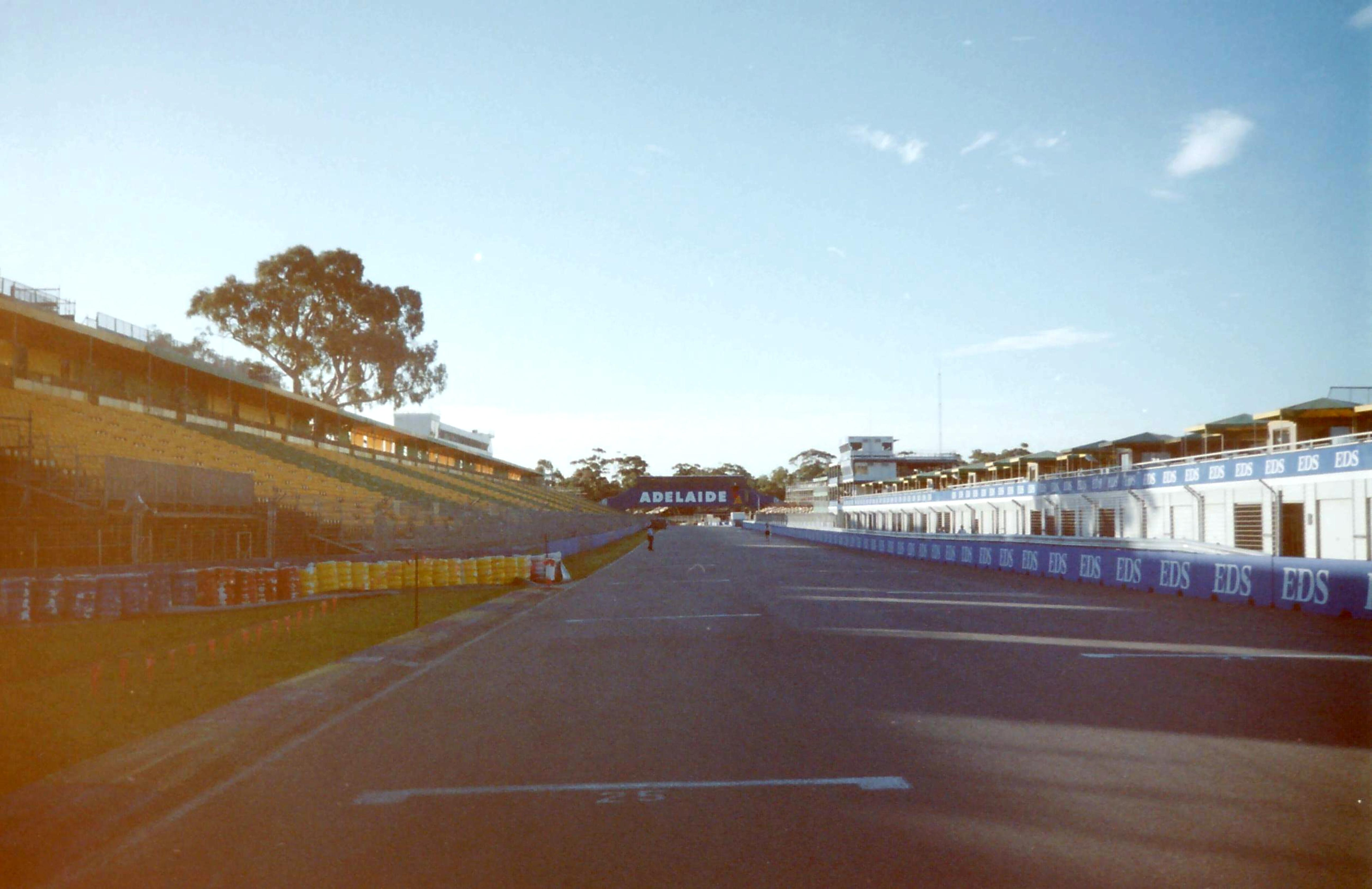 The track just before the 1995 Australian Grand Prix in Adelaide.